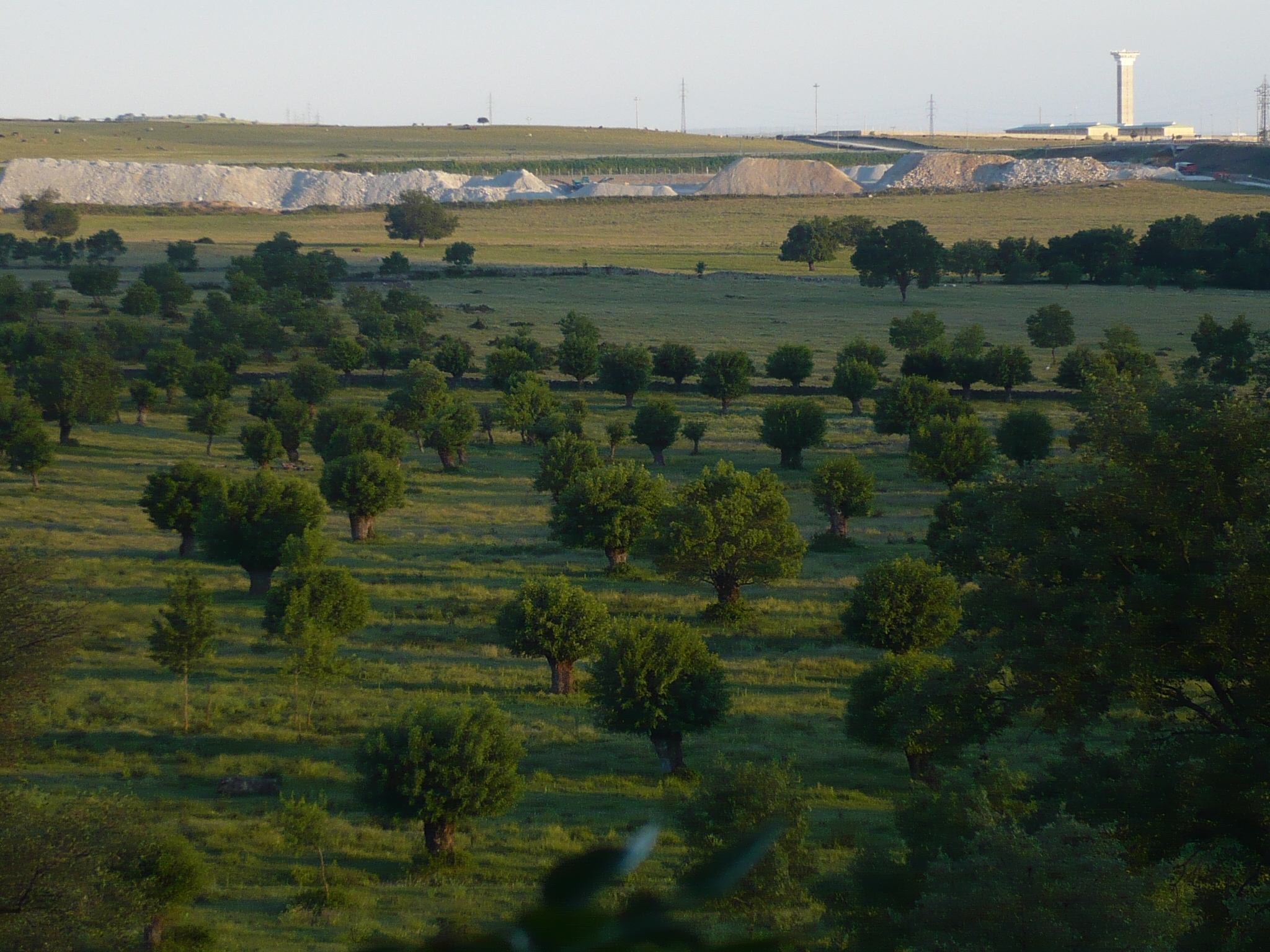 Dehesa of Fraxinus angustifolia at Soto del Real (Madrid). In the background the jail of Madrid V.